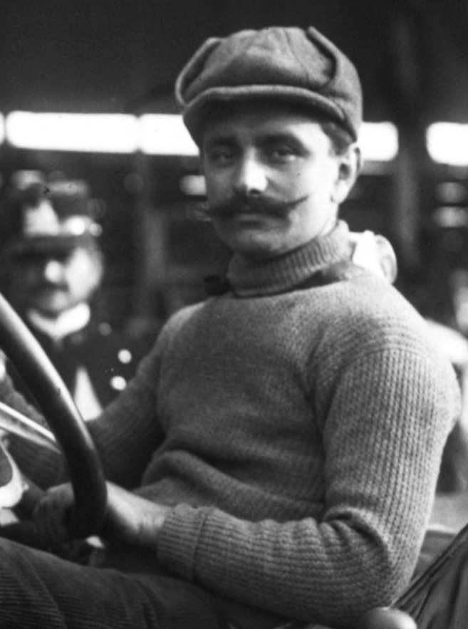 Vincenzo Trucco in his Isotta-Fraschini at the 1908 Targa Florio.